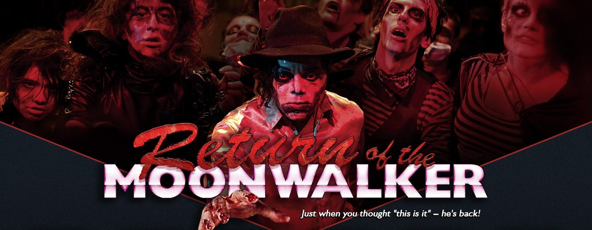 Photoshop collage of different Return of the Moonwalker characters